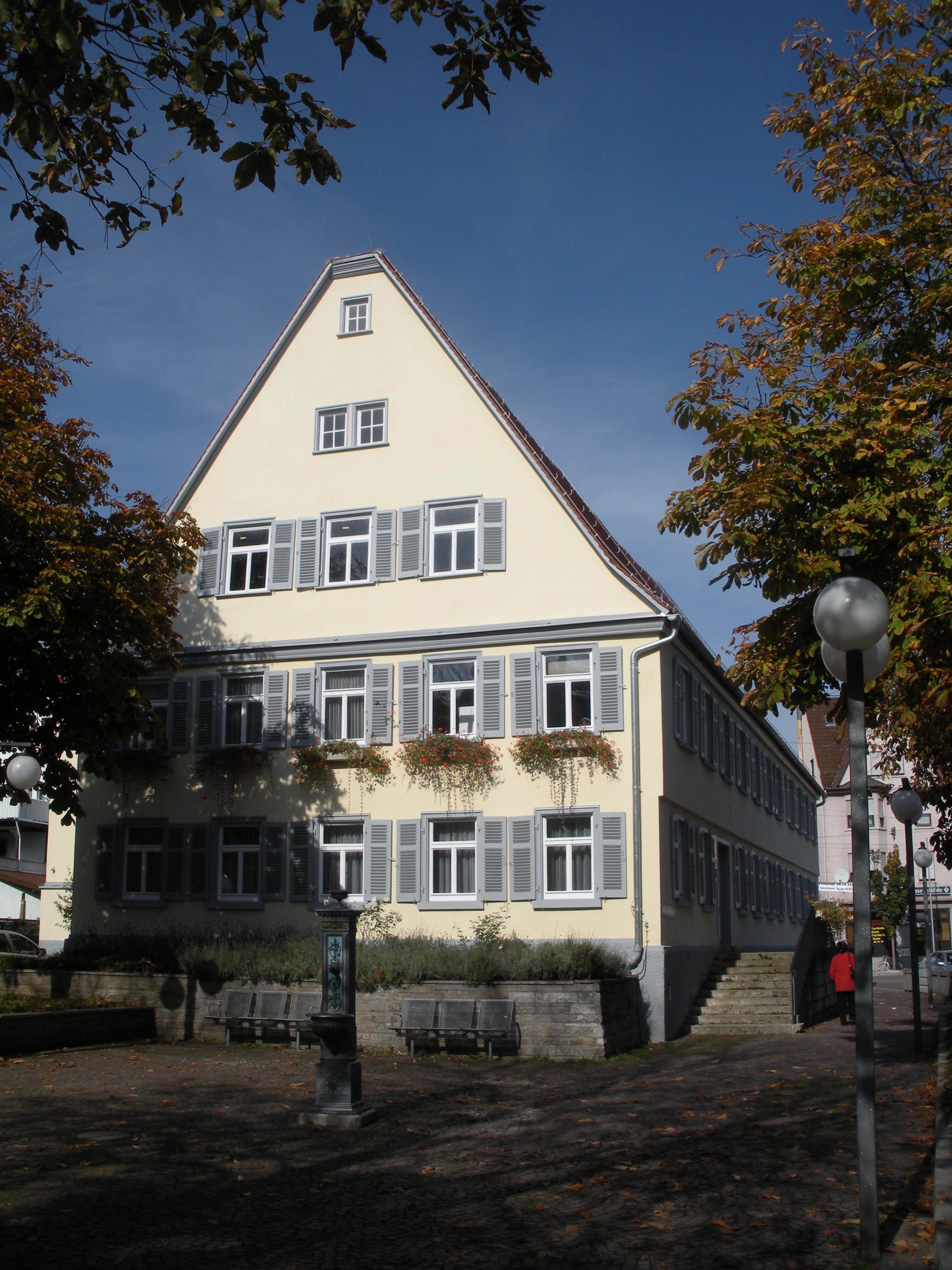 Town Hall in Stuttgart-Wangen